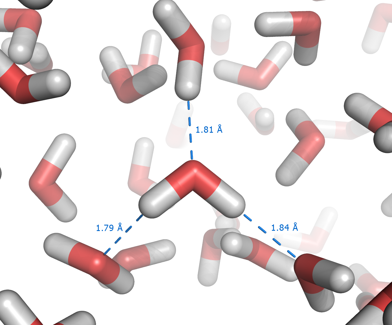 Hydrogen bonds in liquid water molecular dynamics simulation (Tip3P water model with CHARMM force field)